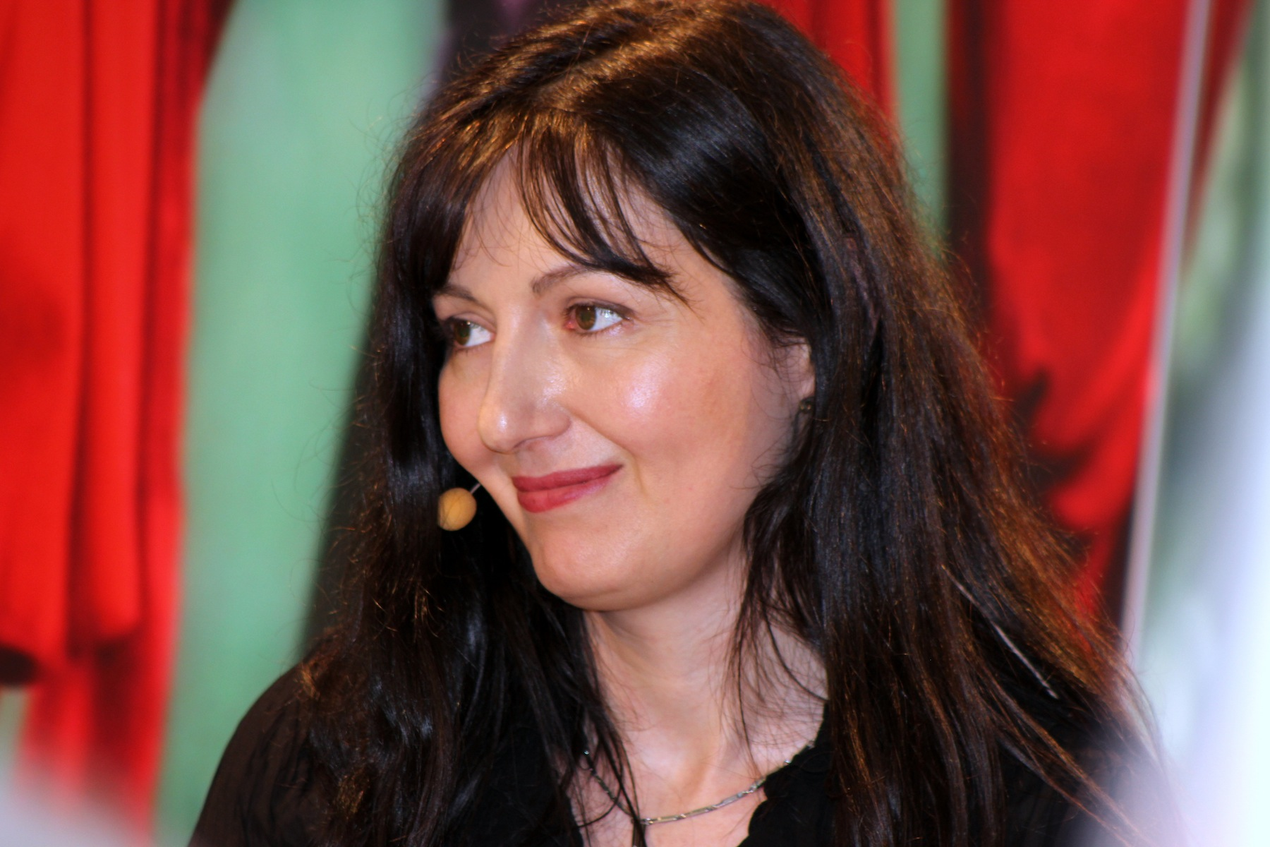 Anila Wilms, Frankfurt Book Fair 2013